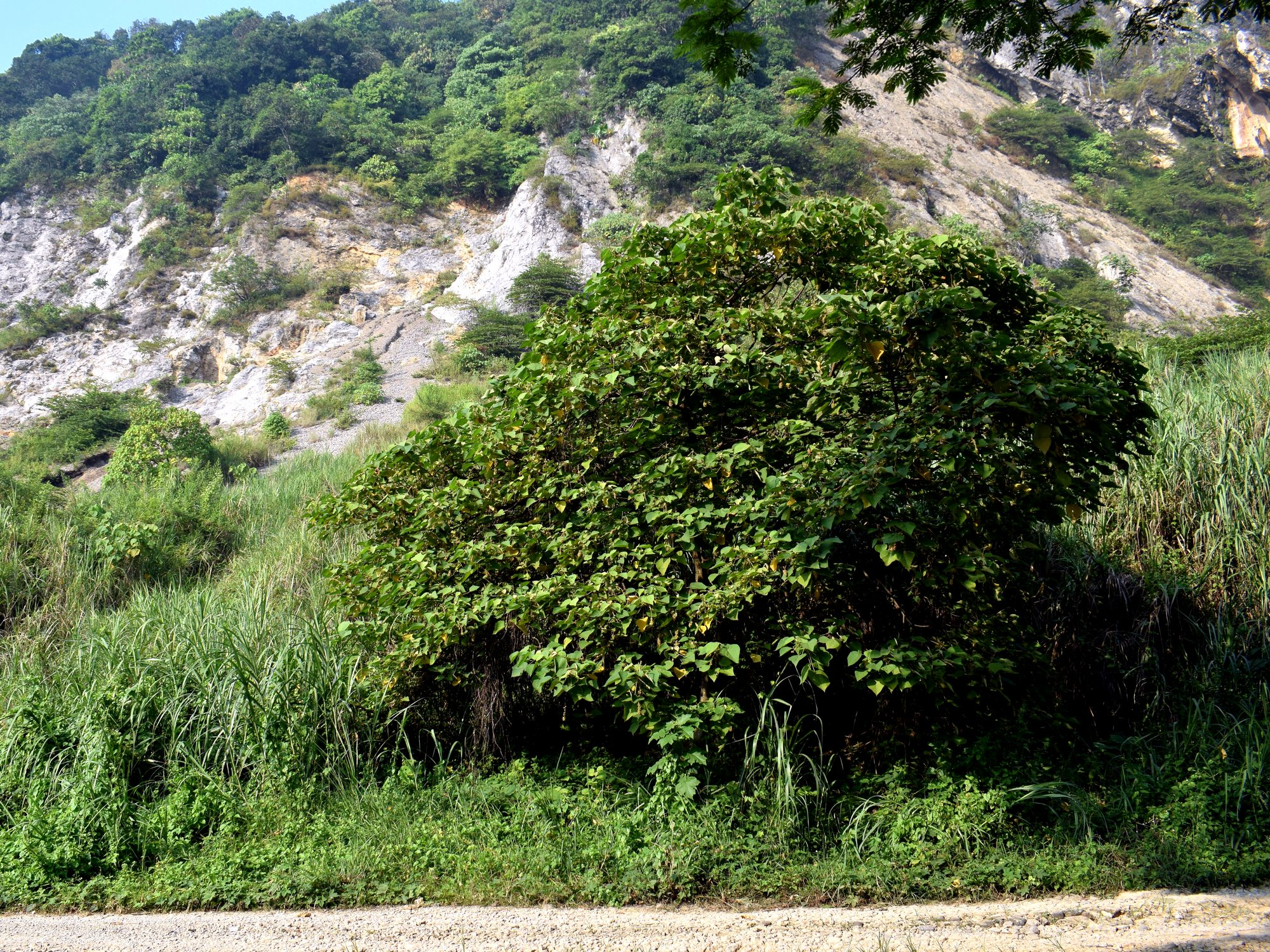 Mallotus molissimus; habits, ca. 5m high. From Bogor, West Java, Indonesia.